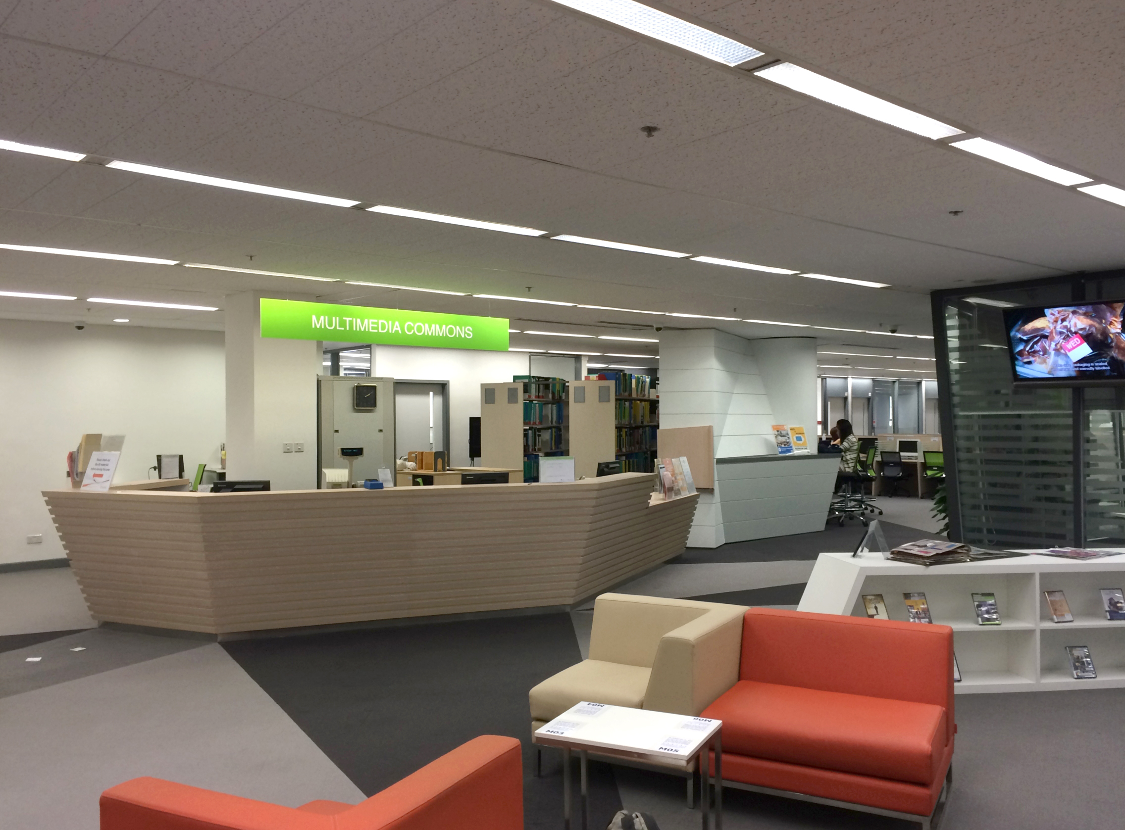 Pao Yue-kong Library Level 3 Multimedia Commons